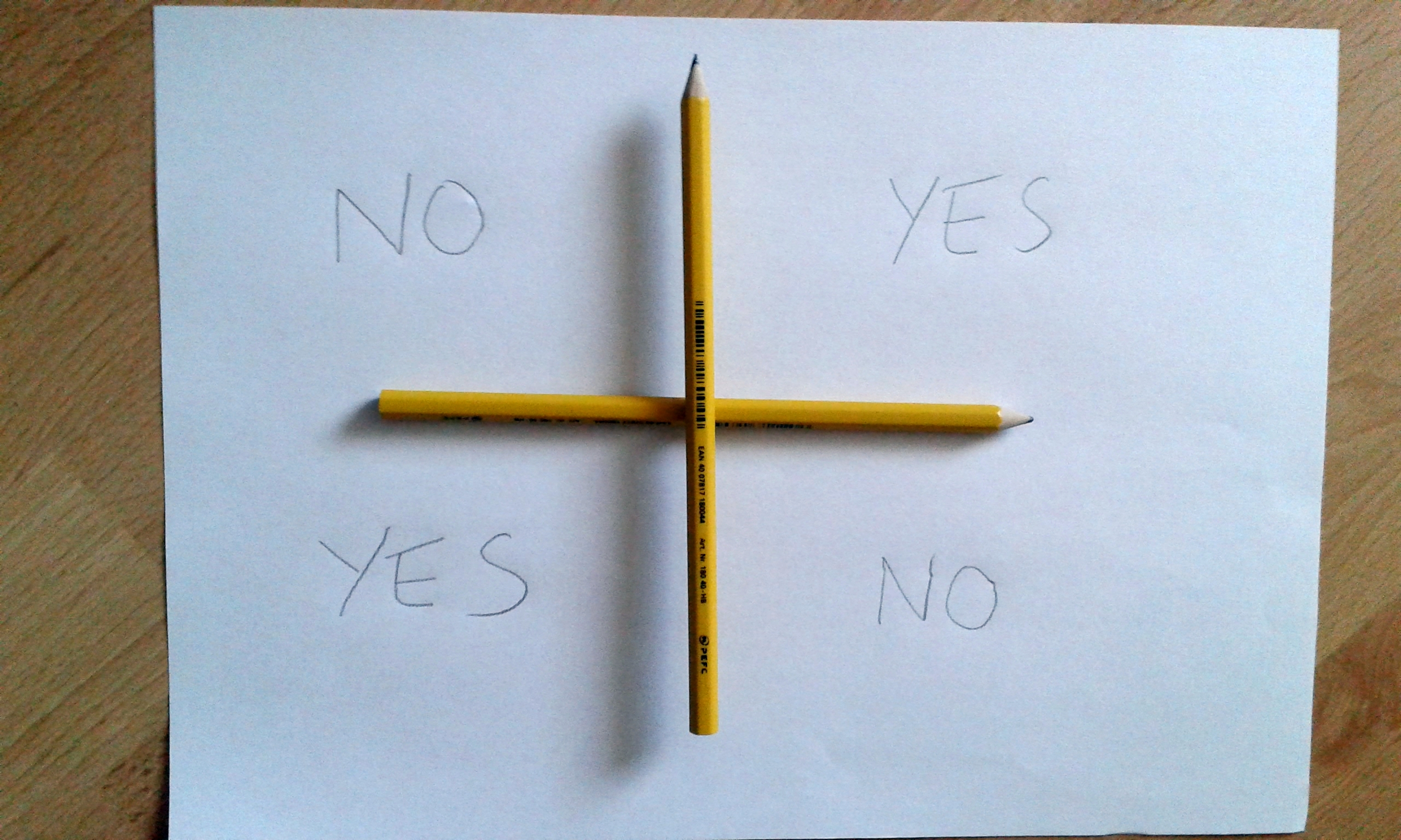 Two pencils set up for the Charlie Charlie Challenge